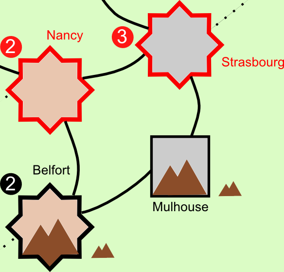 Paths of Glory: four spaces in western front, 3 fortresses and 1 standard space. This is a personal work, only for example purposes and without use of original game art. Paths of Glory (Copyright 1999 & 2004) is a game by GMT Games LLC, game design by Ted Raicer, map and counter original art by Mark Simonitch.